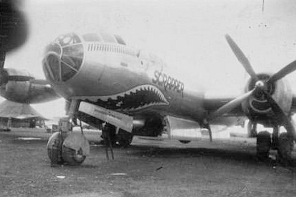 462nd Bomber Group B-29 s/n 42-63503 "Scrapper". Note that source misidentifies this aircraft as s/n 42-24599 "Sky Scrapper" of the 497th Bomber Group, which had distinctly different nose art.